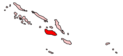 Map of the Solomon Islands showing Guadalcanal province. Made by User:Golbez.